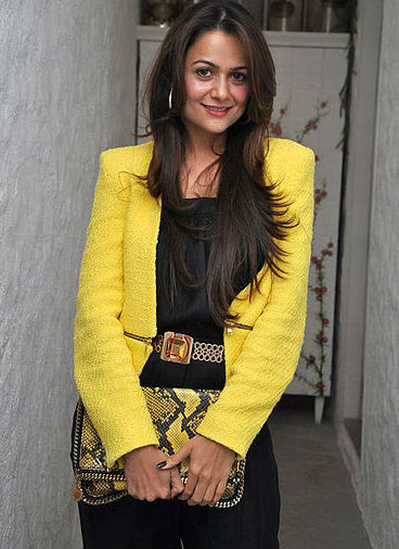 Amrita arora kallista spa